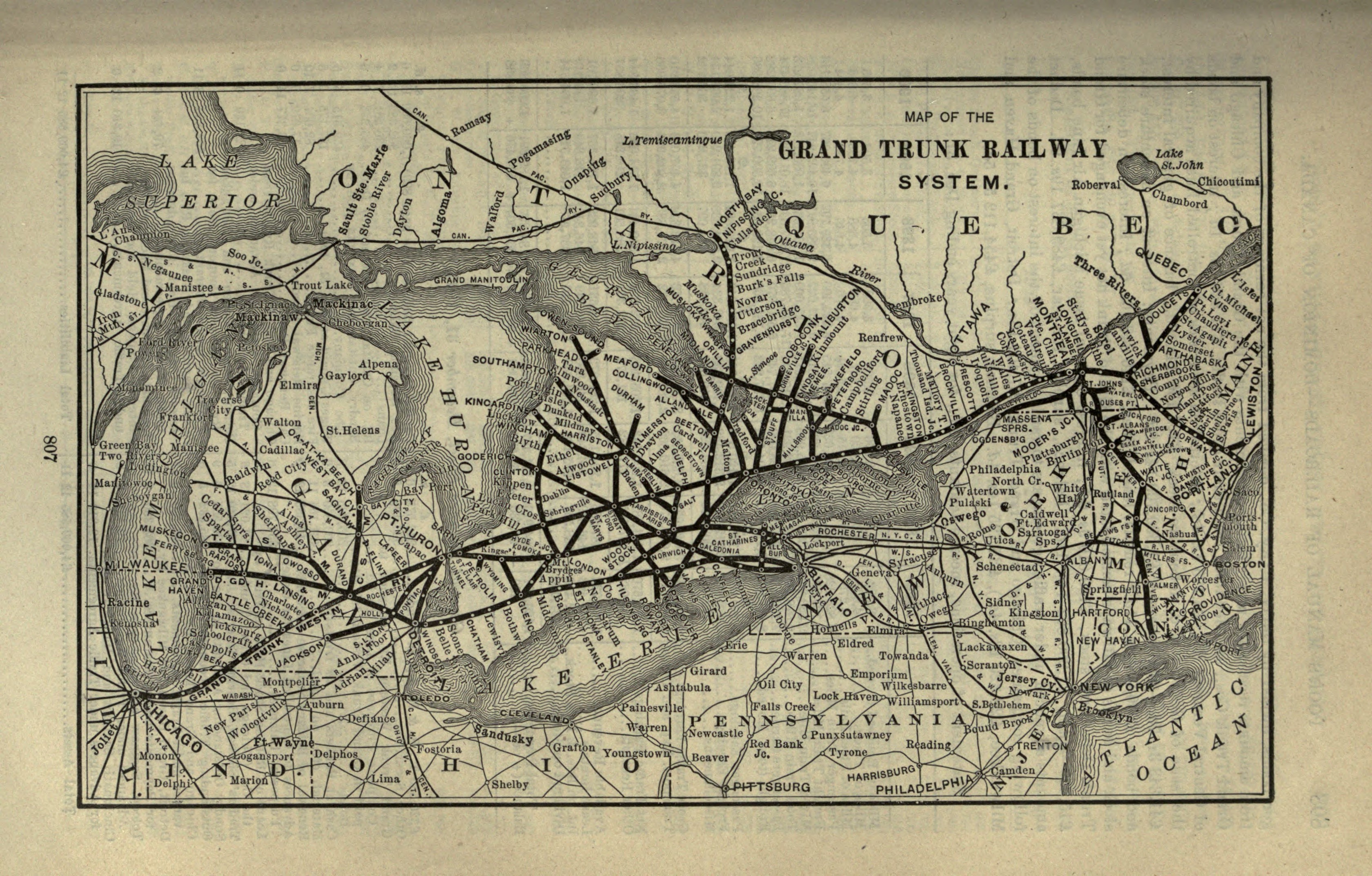 Grand Trunk Railway